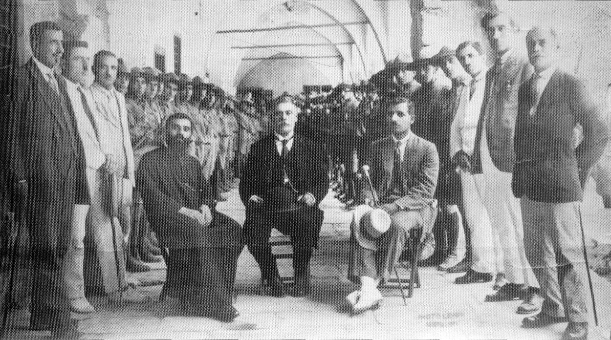 Mihran Tamatyan in Mersin, 1921